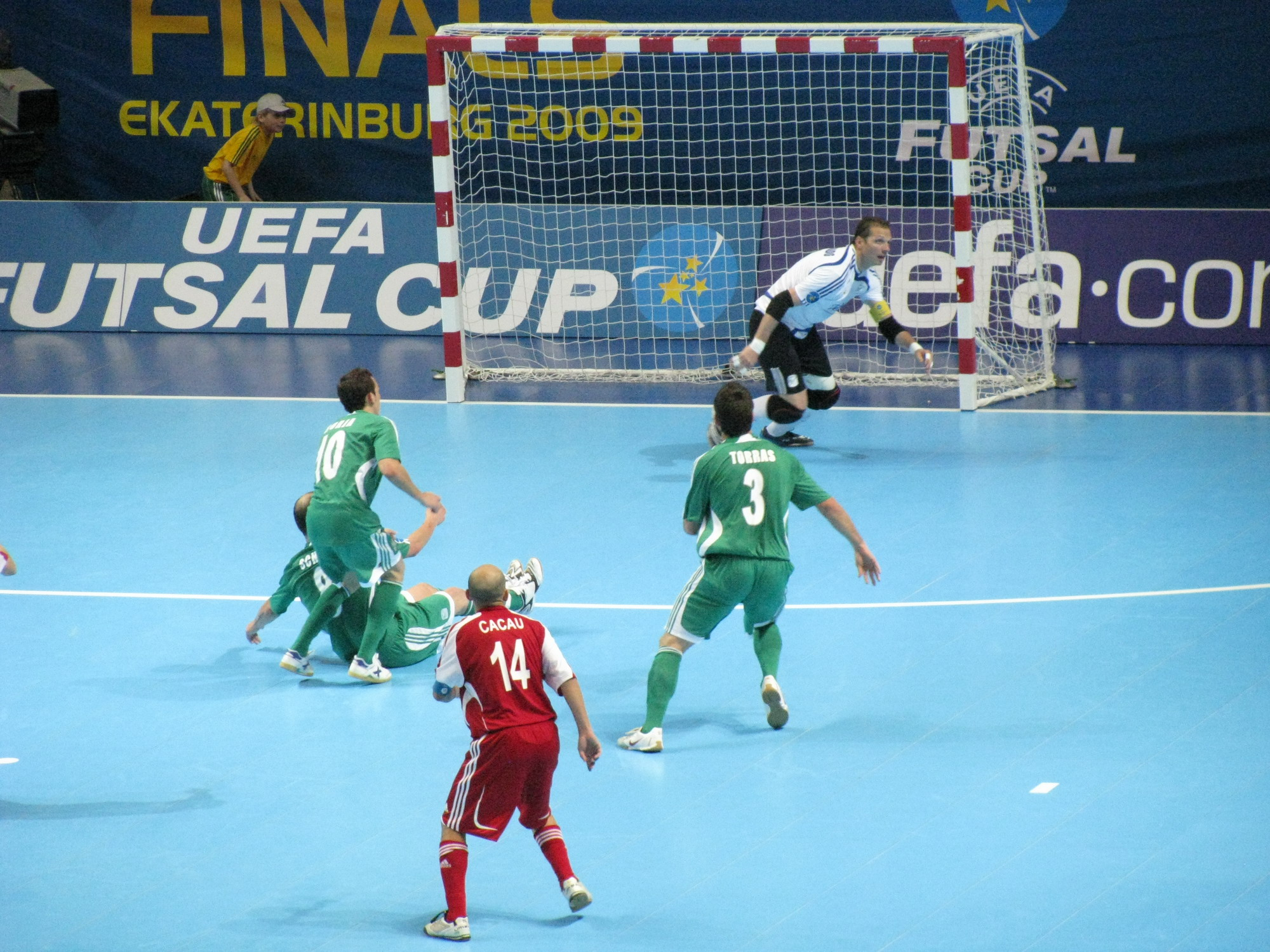 UEFA Futsal Cup, Yekaterinburg 2009